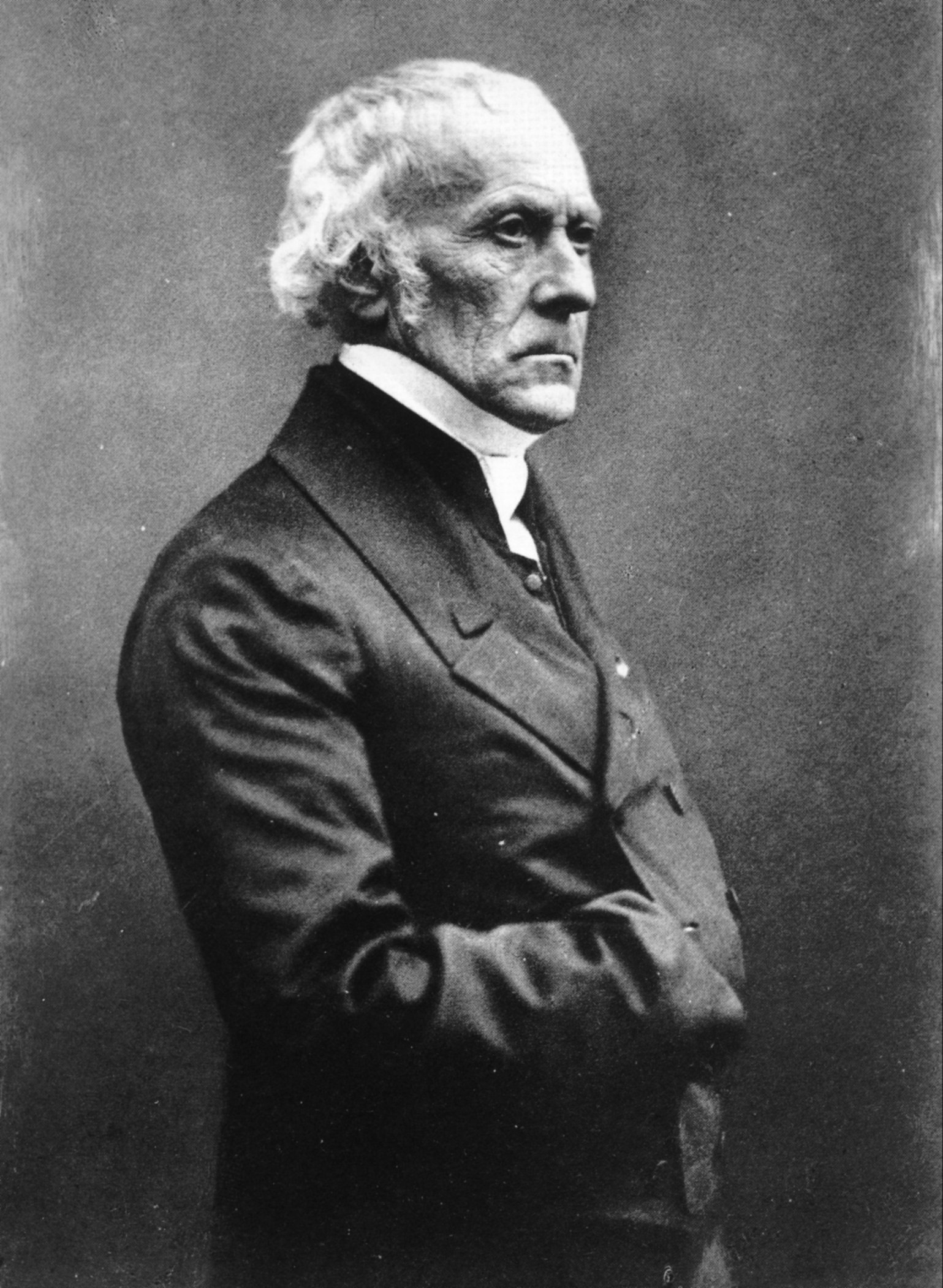 Photography of François Guizot by Félix Nadar